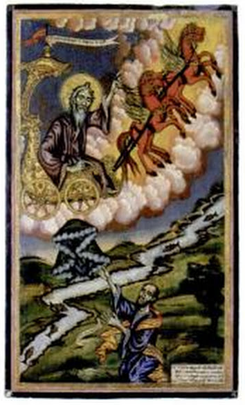 Saint Elijah Icon by Lazar Argirov. Sts Peter and Paul Church in Melnik, Bulgaria.